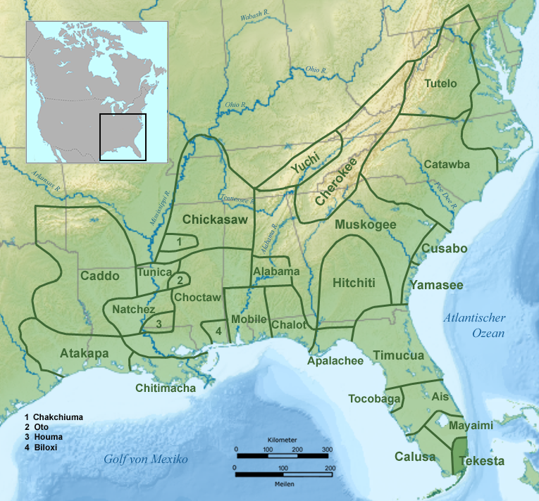 Tribal territory of Tekesta during sixteenth century